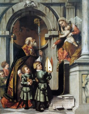 Saint Nicholas from Bari with two children and the Virgin, Pala Rovelli